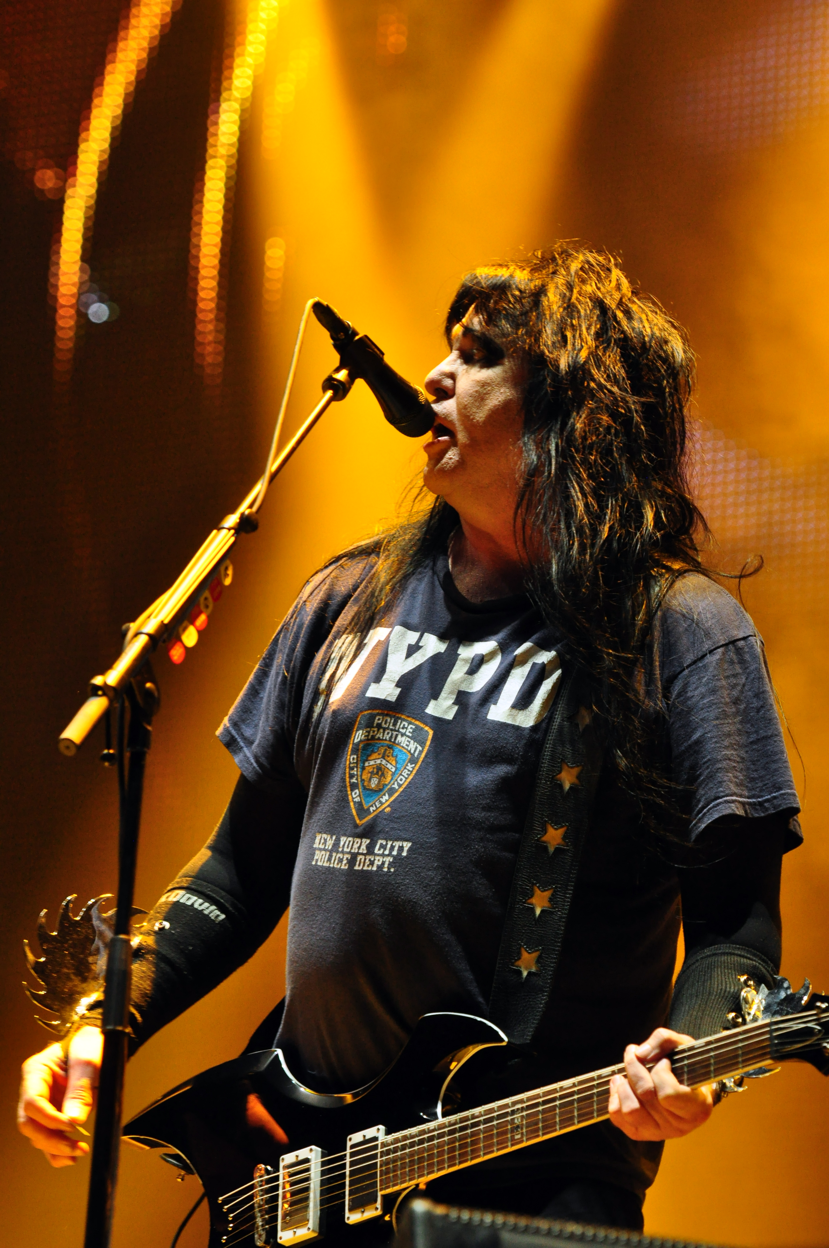 W.A.S.P. at Wacken Open Air 2014